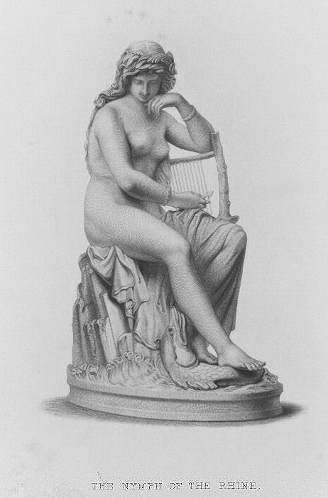 19th Century German Sculpture entitled “ The Nymph of the Rhine”